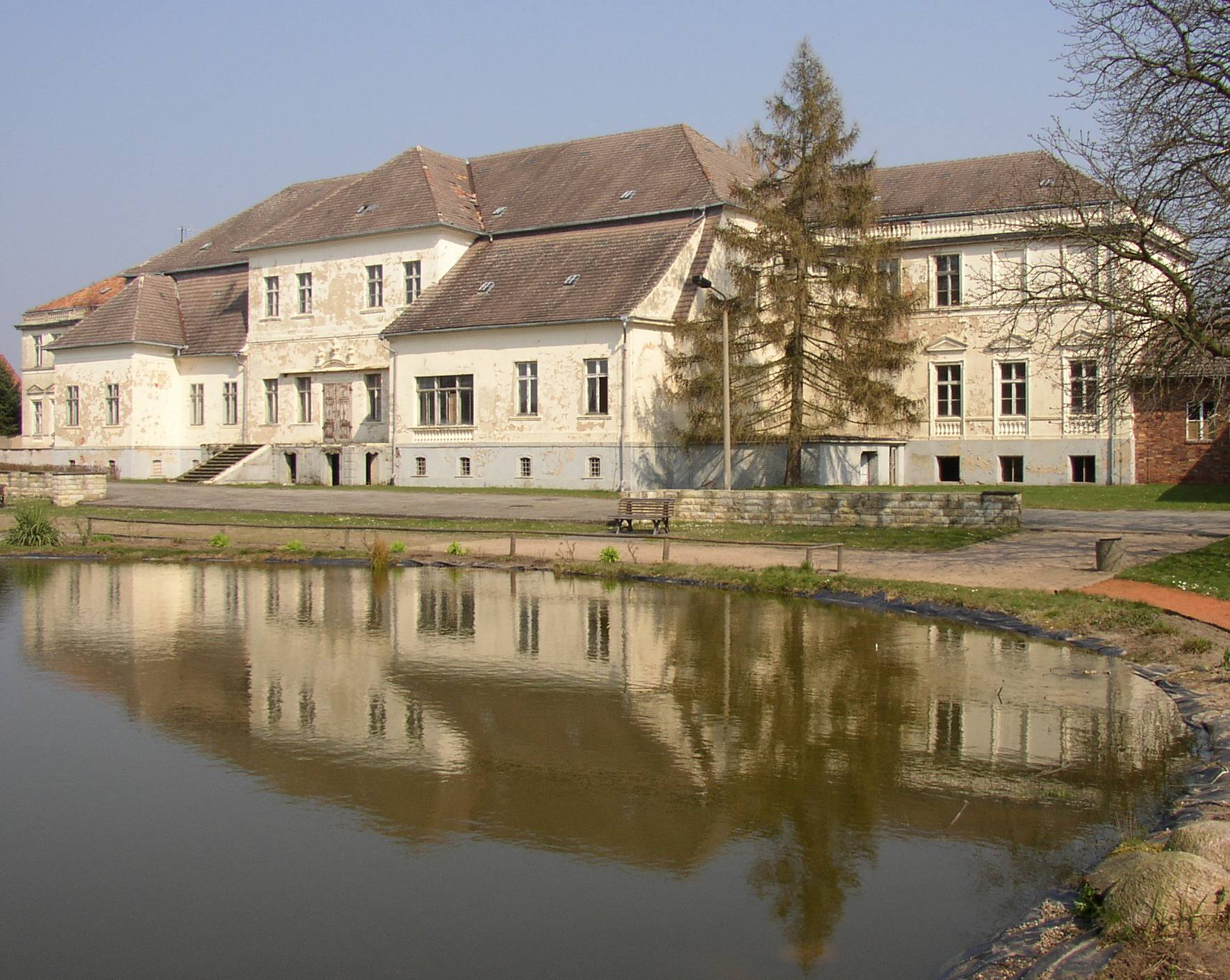 Palace in Wiesenburg-Schmerwitz in Brandenburg, Germany